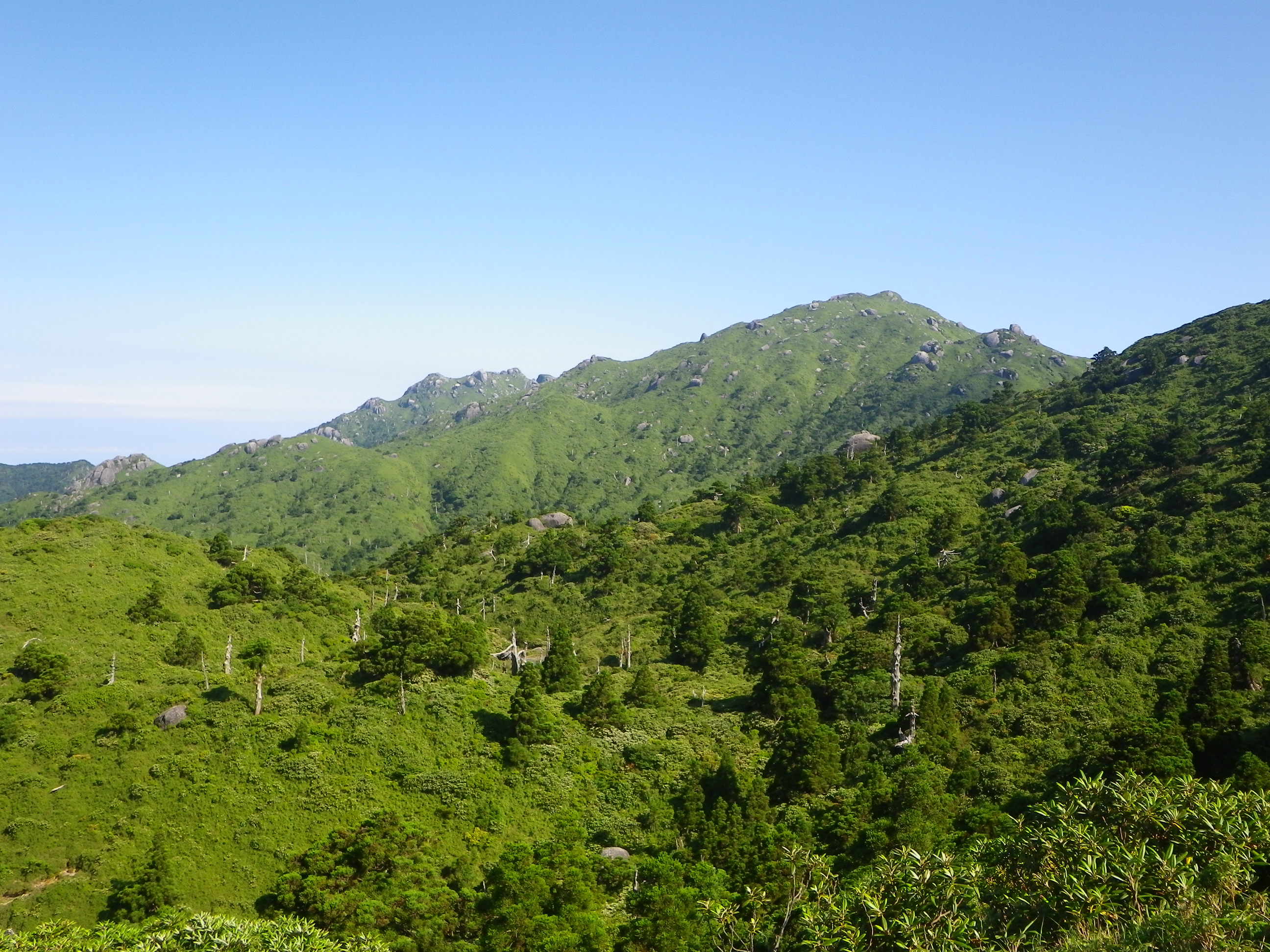 The Three Mountains (Mitake) of Yakushima